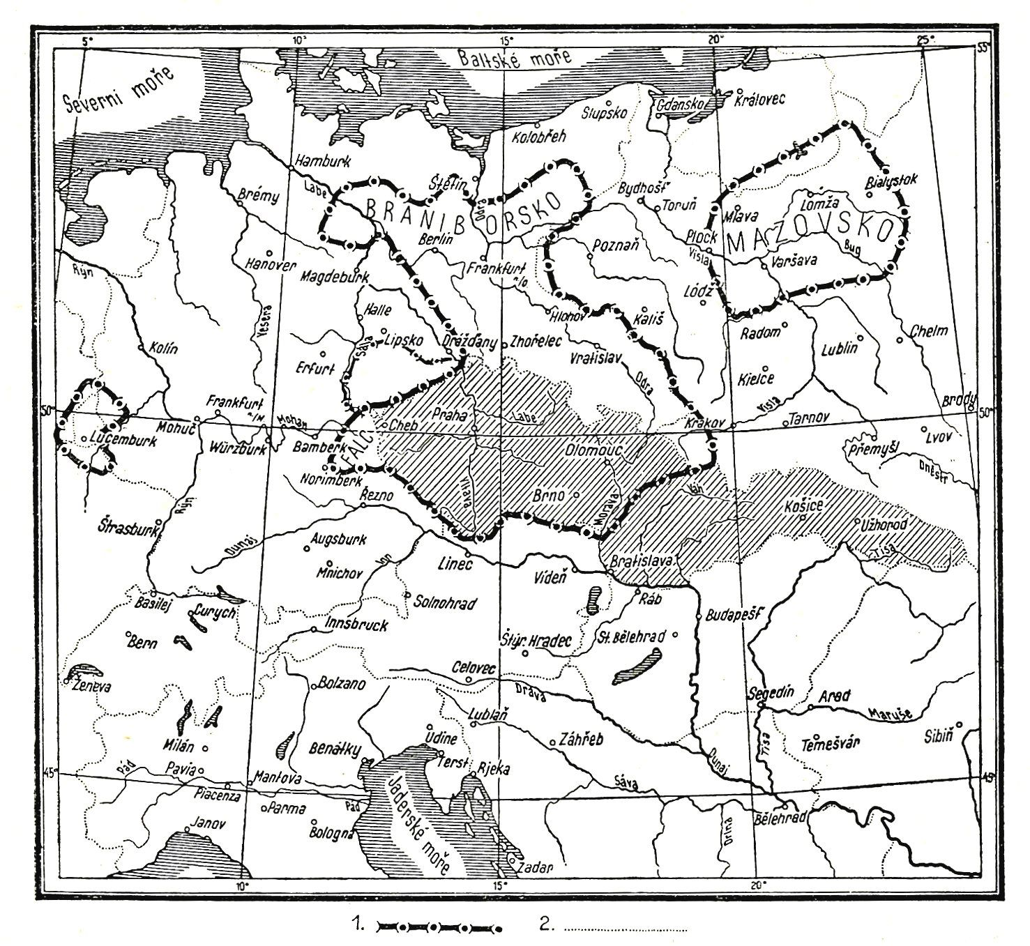 Map showing territory ruled by the Bohemian kings during the second half of the 14th century. (1. borders of the Czech lands and lands attached, 2. existing borders of states in 1937.)